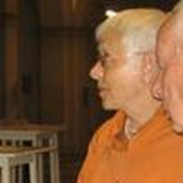 From left:Günther Frei, John Milnor, Yvonne Dold-Samplonius, Albrecht Dold, Zürich 2007 (90th birthday Beno Eckmann)